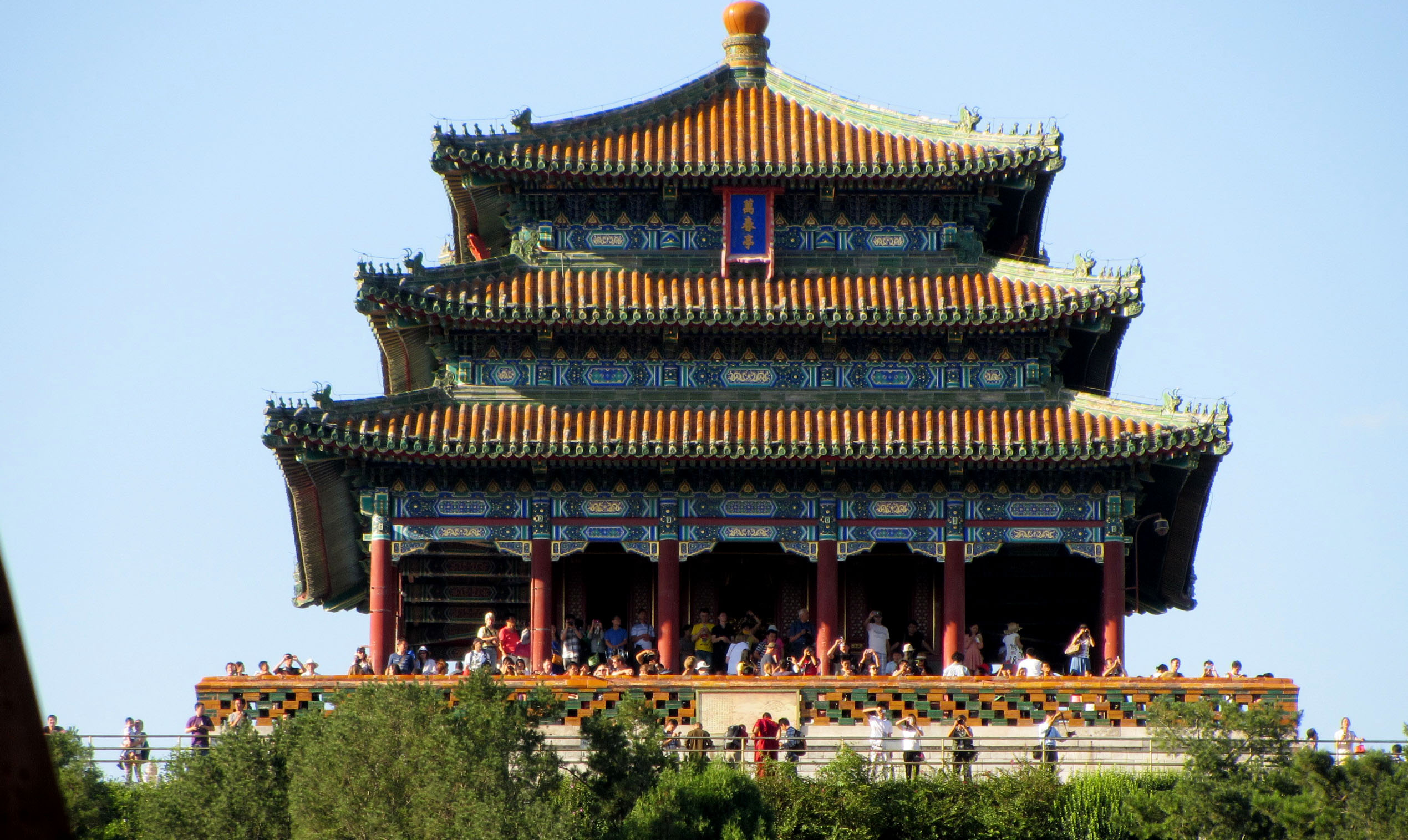 Top Hill Pagode of Jingshan Park seen from Gate of Divine Might of the Forbidden City